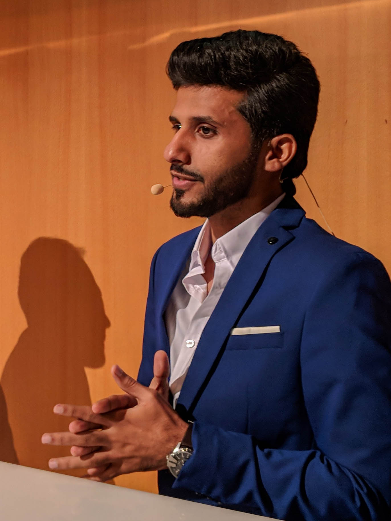 FIWC 15 winner Abdulaziz Alshehri (Saudi Arabia) at a Gamescom press conference in Cologne, Germany